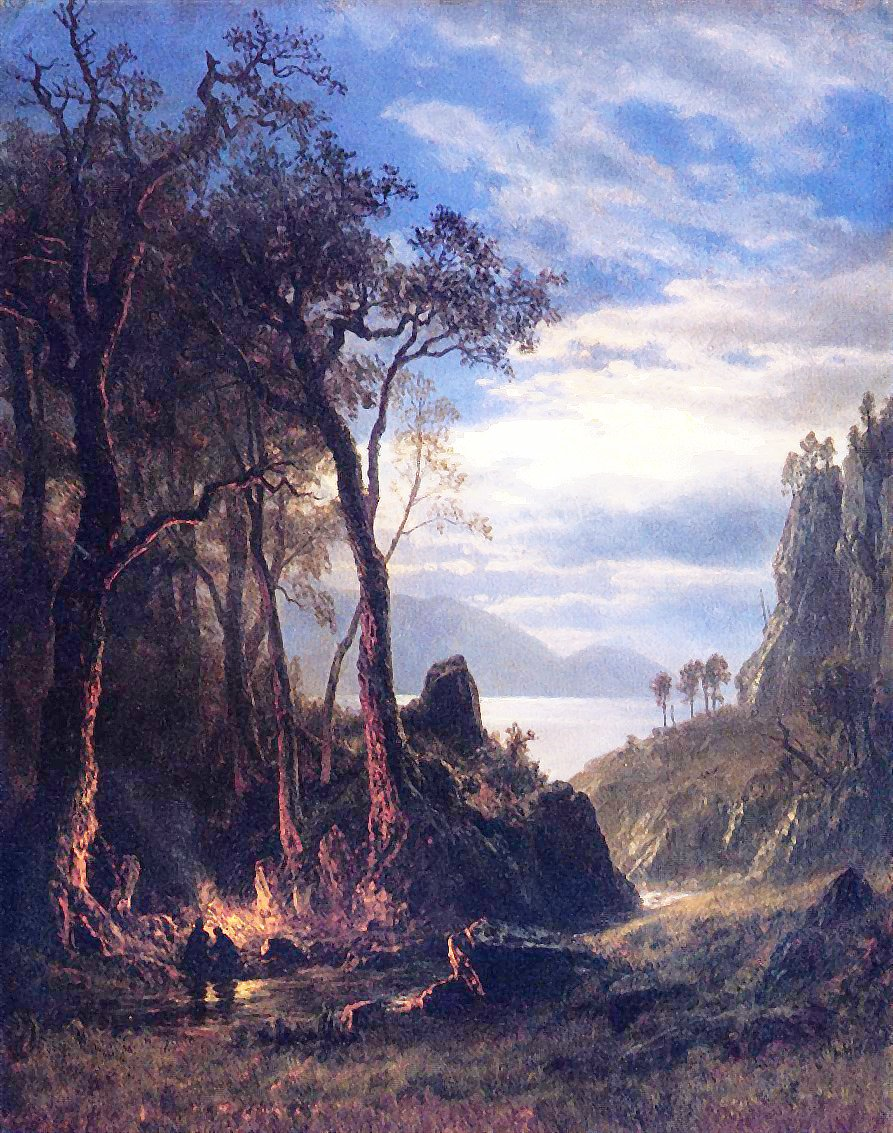 The Campfire